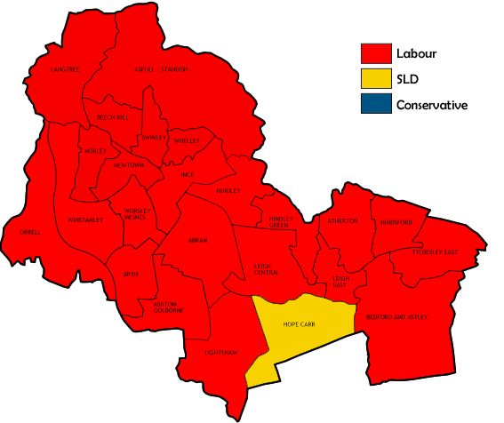 Wigan ward map with political colouring.